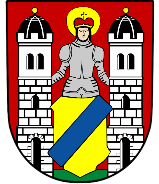 Coat of arms of Votice municipality, Benešov District, Czech Republic